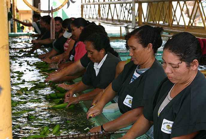 Image of women in Belize sorting bananas and slicing them from bunches.